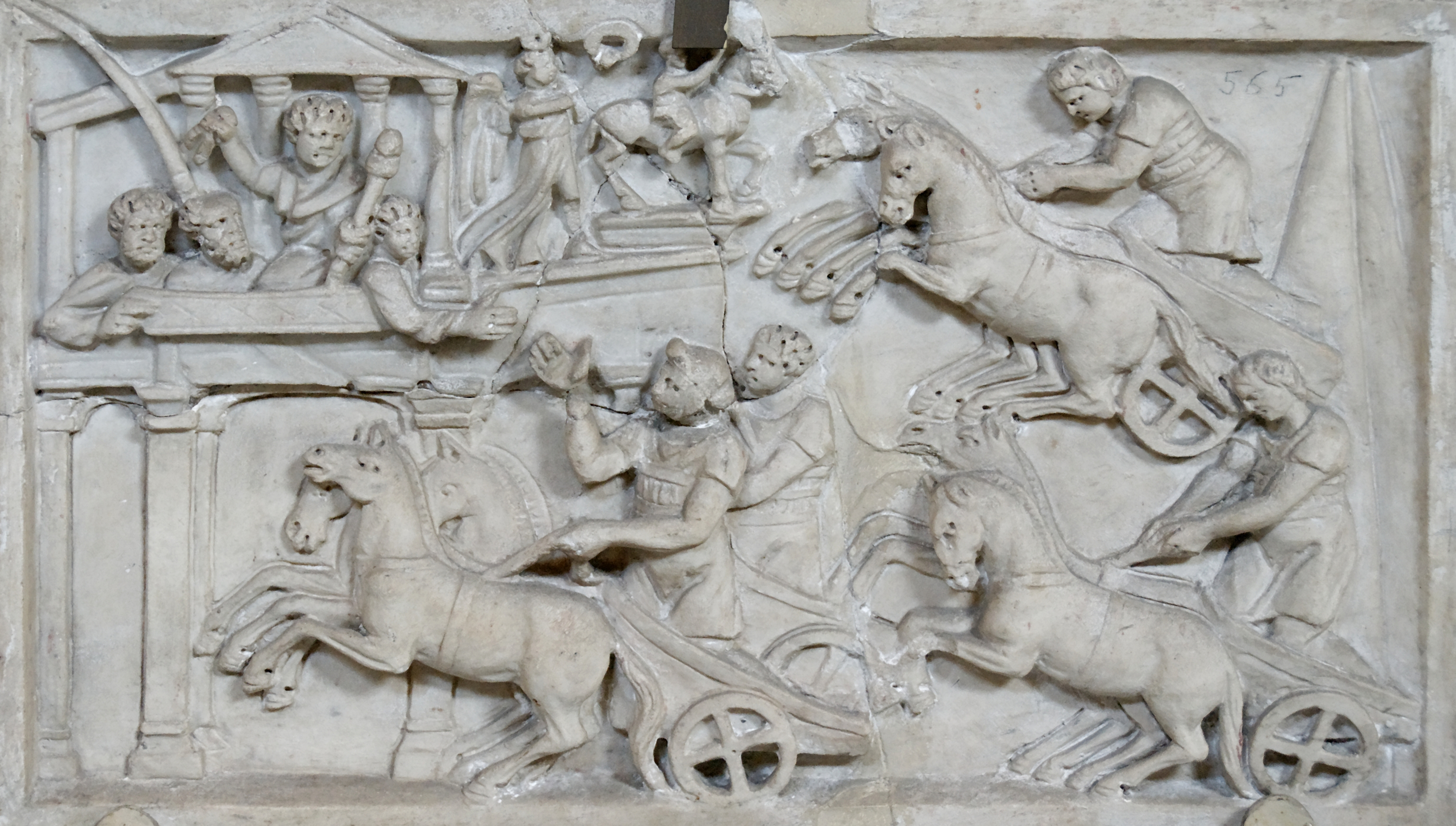 Circus race. Marble relief, Roman artwork, 3rd century CE.